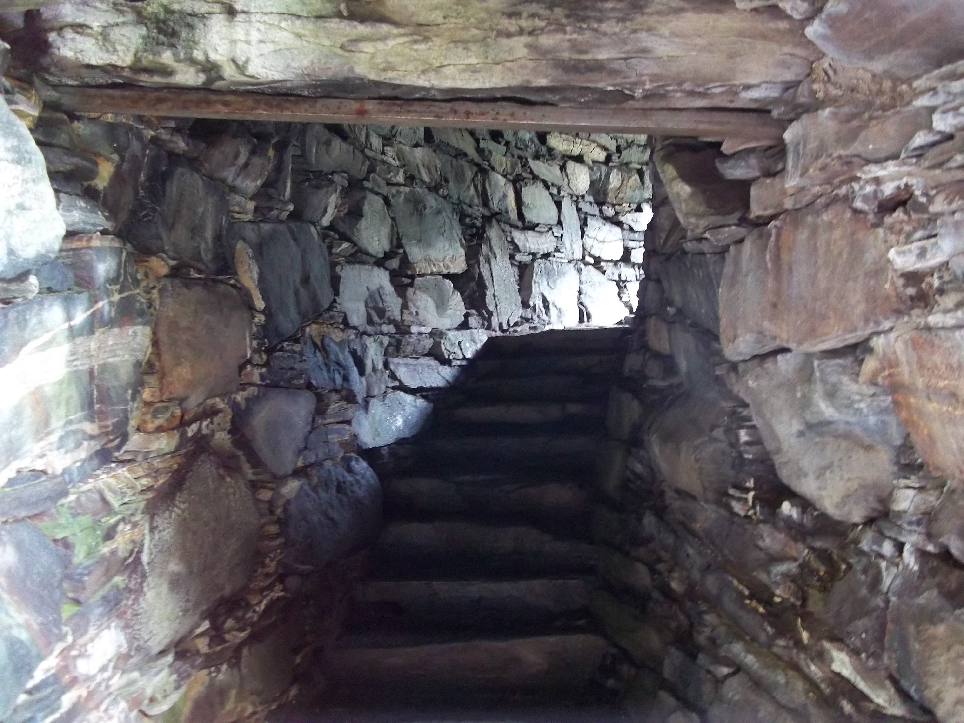 Dun Troddan - an Iron-age Broch near Glenelg in Scotland.